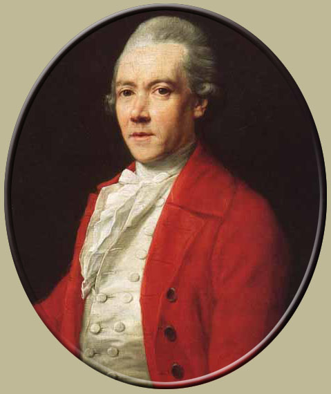 Philip Livingston